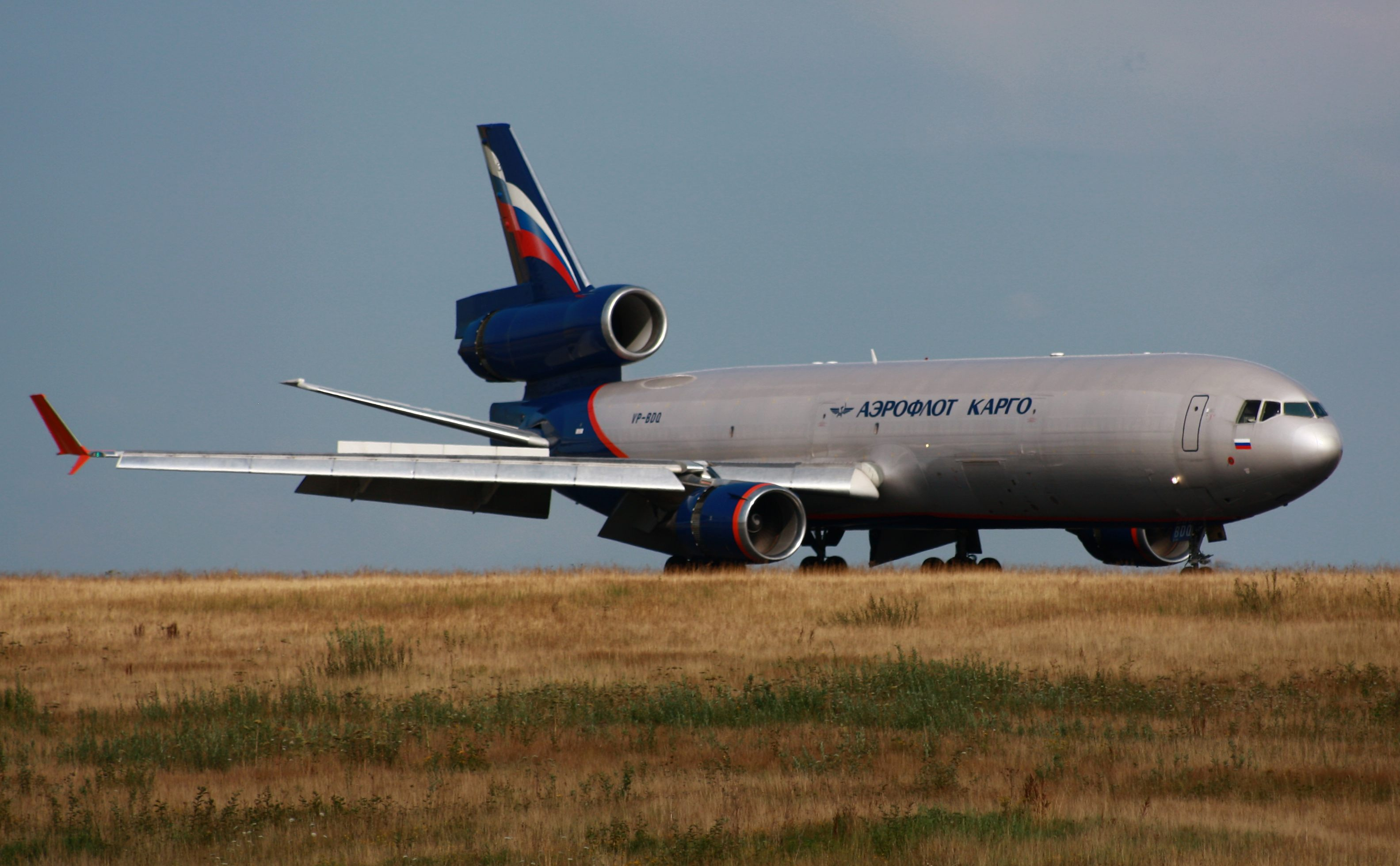 MD-11F (VP-BDQ) landing in Hahn